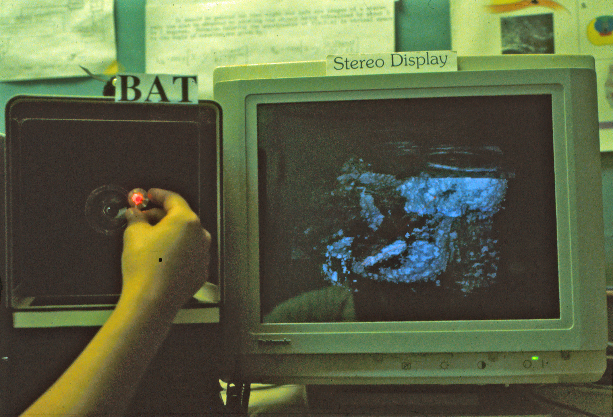 Operation of National Biomedical Research Foundation (NBRF) BAT, a device used for interacting with objects rendered by computers in 3 dimensions. The BAT is shown here being used with a stereo display.